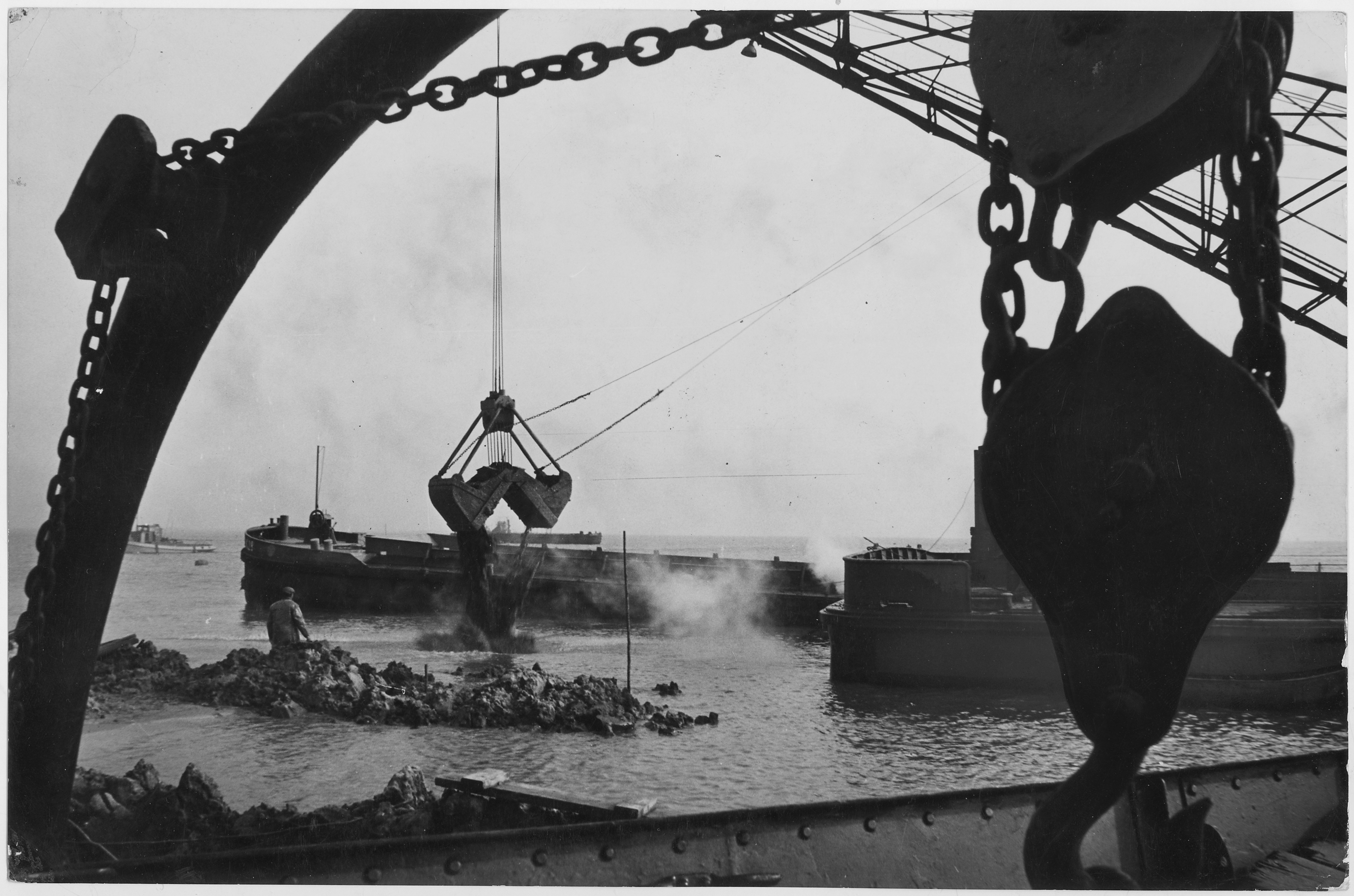 Netherlands. Land reclamation in Holland with help of Marshall Plan Funds, ca. 1948 - ca. 1955